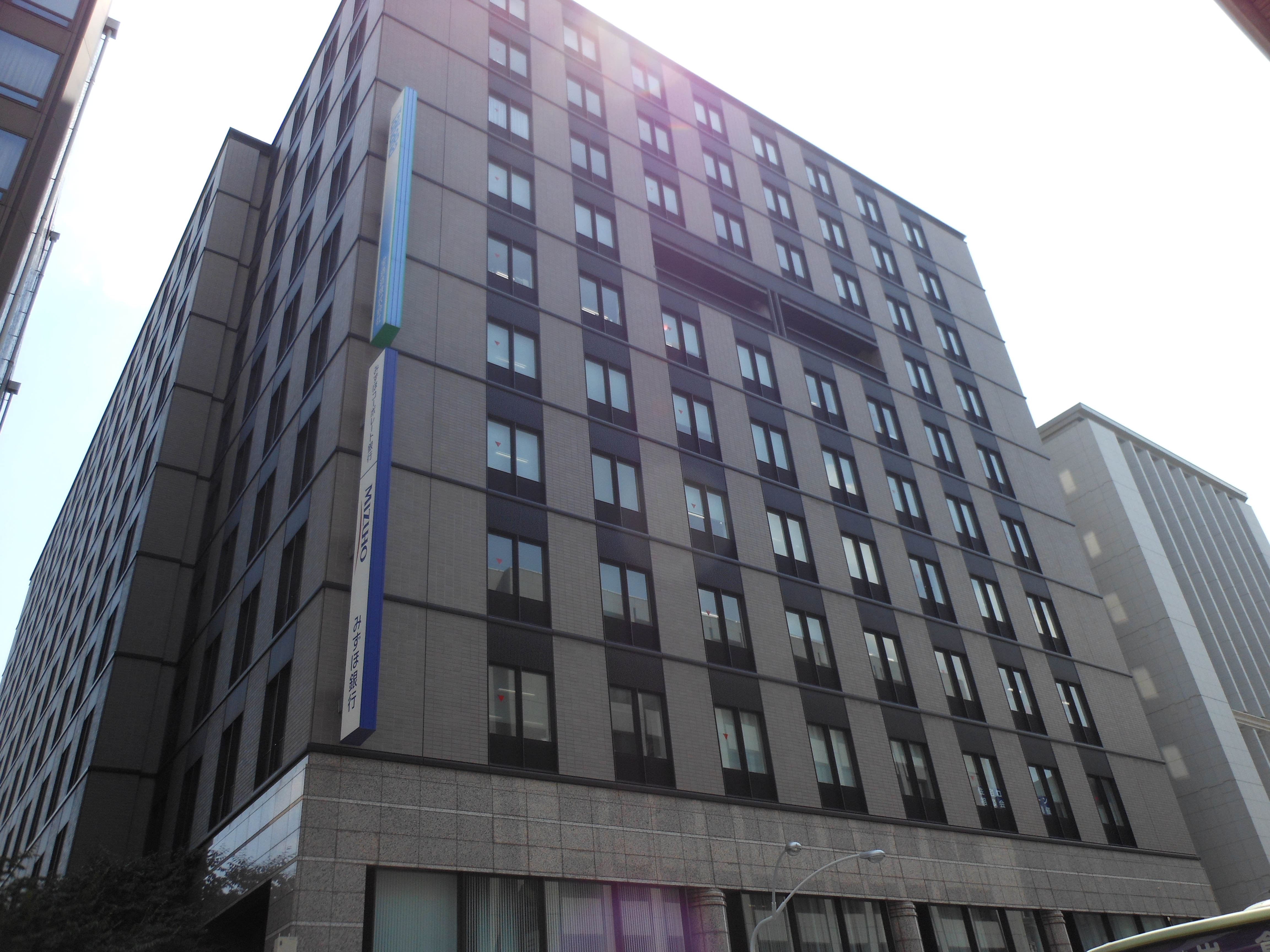 Shijo Karasuma FT Square, 20 Naginatabokocho Shijodori-karasumahigashiiru Shimogyo-Ku Kyoto-City Kyoto Japan.